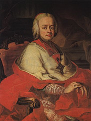 Sigismund von Schrattenbach (1698-1771), Prince-Archbishop of Salzburg from 1753 to 1771.